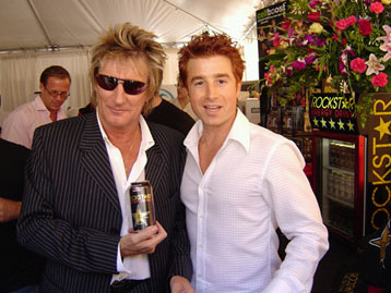 Russell Weiner (right) with Rod Stewart (left)